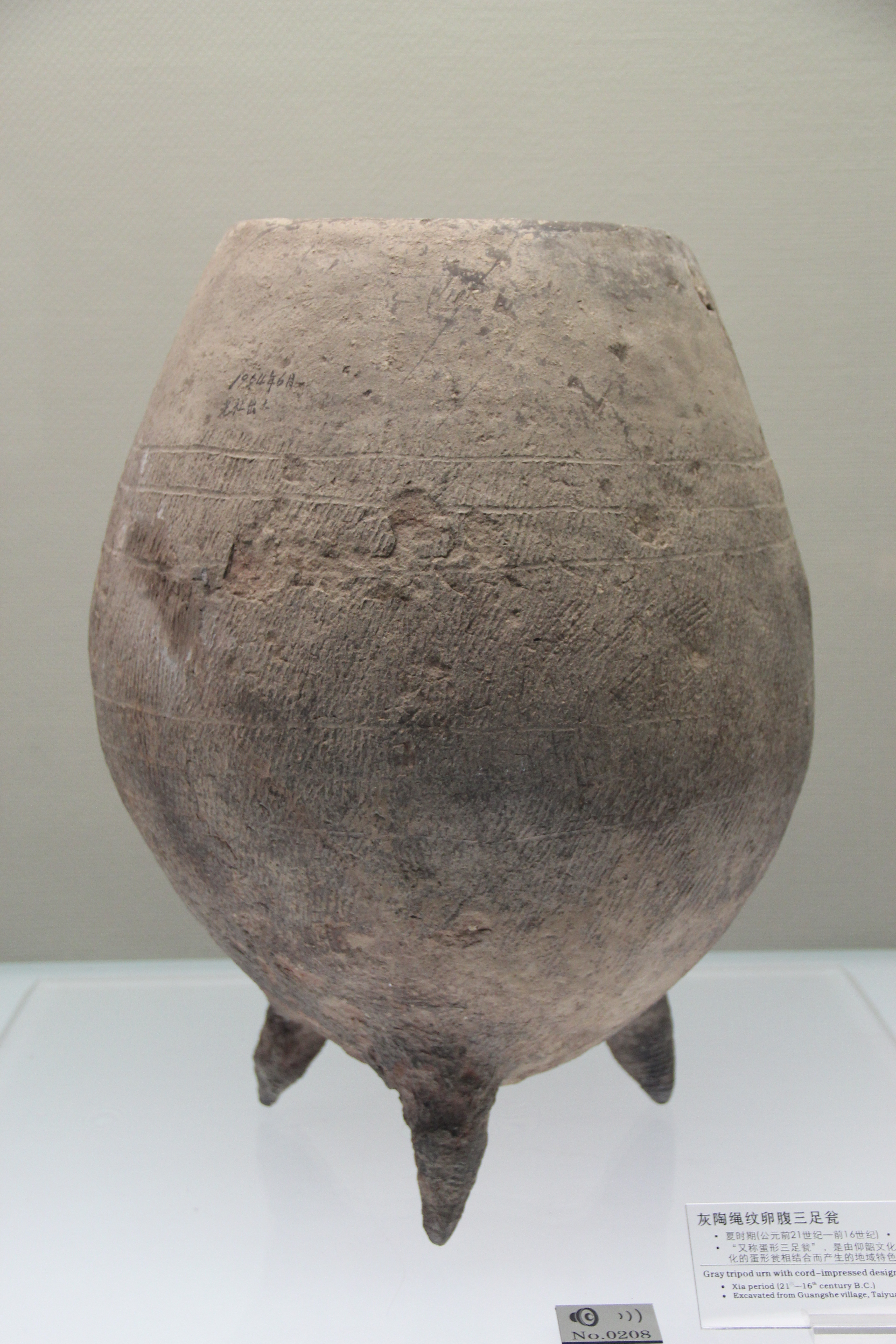 Shanxi Provincial Museum, Taiyuan. Complete indexed photo collection at .